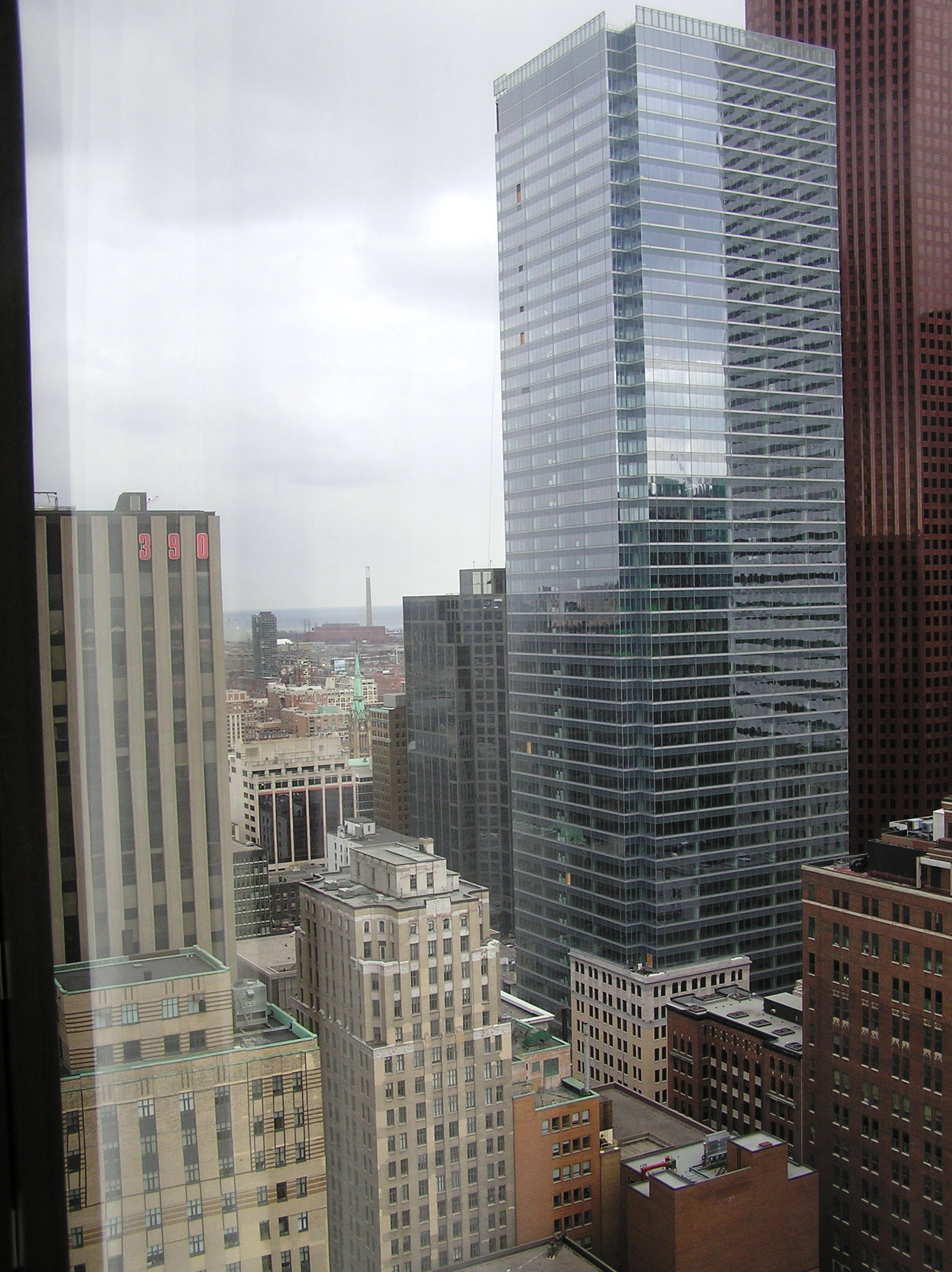 First tower of the Bay Adelaide Centre, nearing completion. Taken from the 38th floor of the Sheraton Centre. Toronto, Canada.